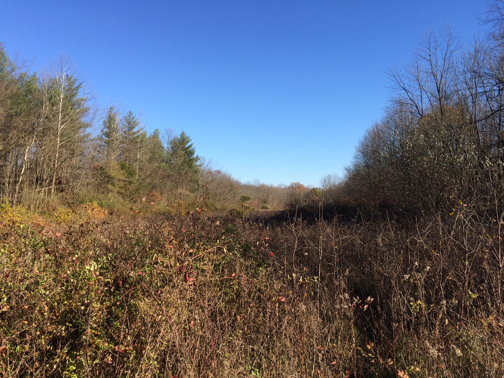 Strip of open ground in central section, Mid-November